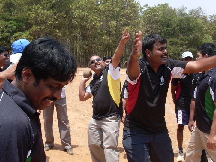 Sports Day During KrishDent 2012